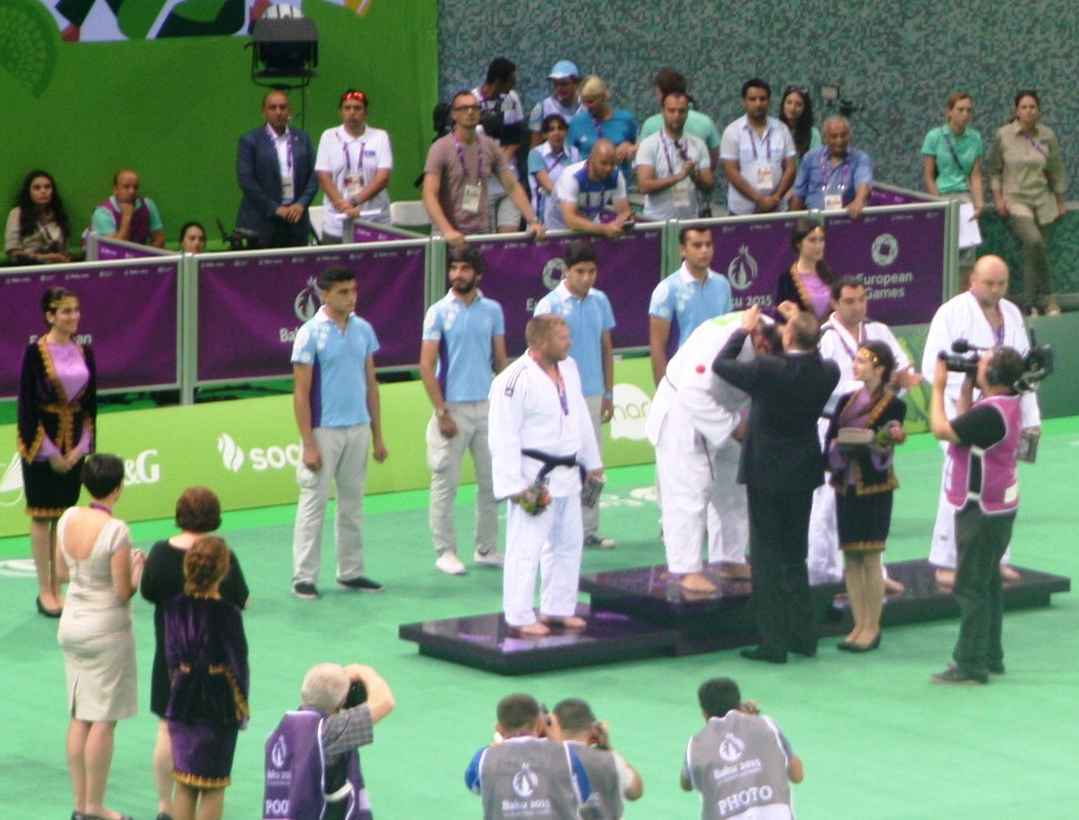 Awarding ceremony of the blind judo men +90 kg of the 2015 European Games